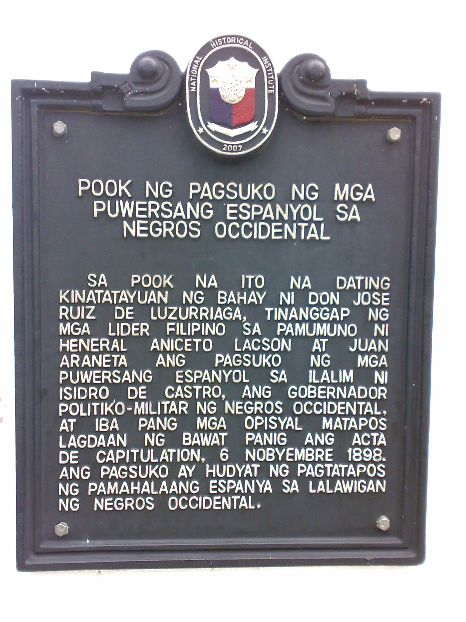 Historical marker commemorating the surrender of Spanish forces to local Filipino forces in Bacolod City, November 6, 1898. Marker is found at the Fountain of Justice, Bacolod City, Philippines. The text is in Filipino and translates as: "PLACE OF SURRENDER OF SPANISH FORCES IN NEGROS OCCIDENTAL: ON THIS SPOT WHERE THE HOUSE OF DON JOSE RUIZ DE LUZURRIAGA USED TO STAND, FILIPINO LEADERS LED BY GENERAL ANICETO LACSON AND JUAN ARANETA ACCEPTED THE SURRENDER OF SPANISH FORCES UNDER THE COMMAND OF ISIDRO DE CASTRO, THE POLITICO-MILITARY GOVERNOR OF NEGROS OCCIDENTAL, AND OTHER OFFICIALS, AFTER BOTH PARTIES SIGNED THE DOCUMENT OF SURRENDER, 6 NOVEMBER 1898. THE SURRENDER MARKED THE END OF SPANISH CONTROL OVER NEGROS OCCIDENTAL.